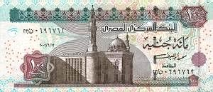 obverse of an Egyptian pound, taken by M. Abuhelwa, uploaded May 2009